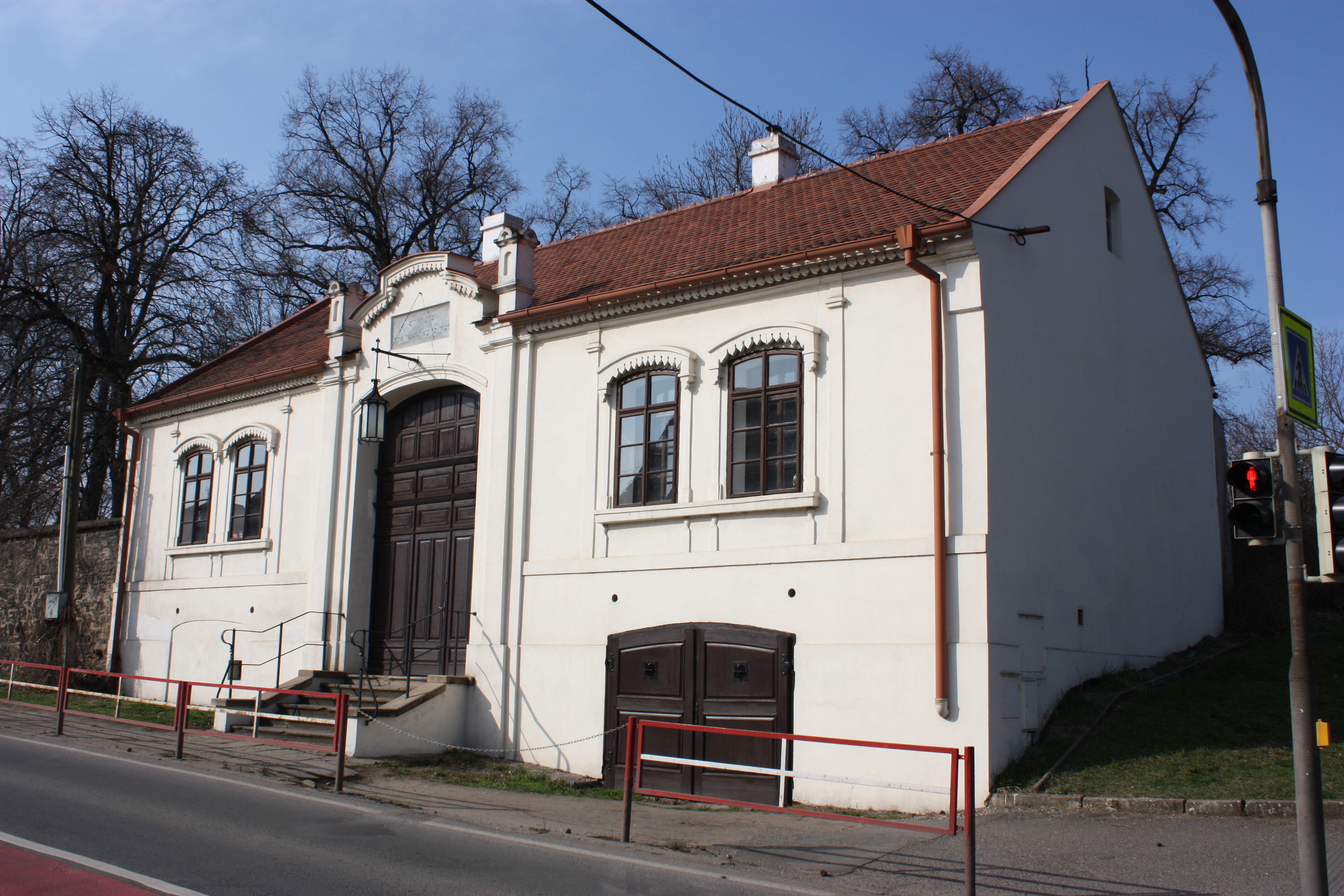 Funeral house at Jewish Cemetery in Brandýs nad Labem, Czechia.